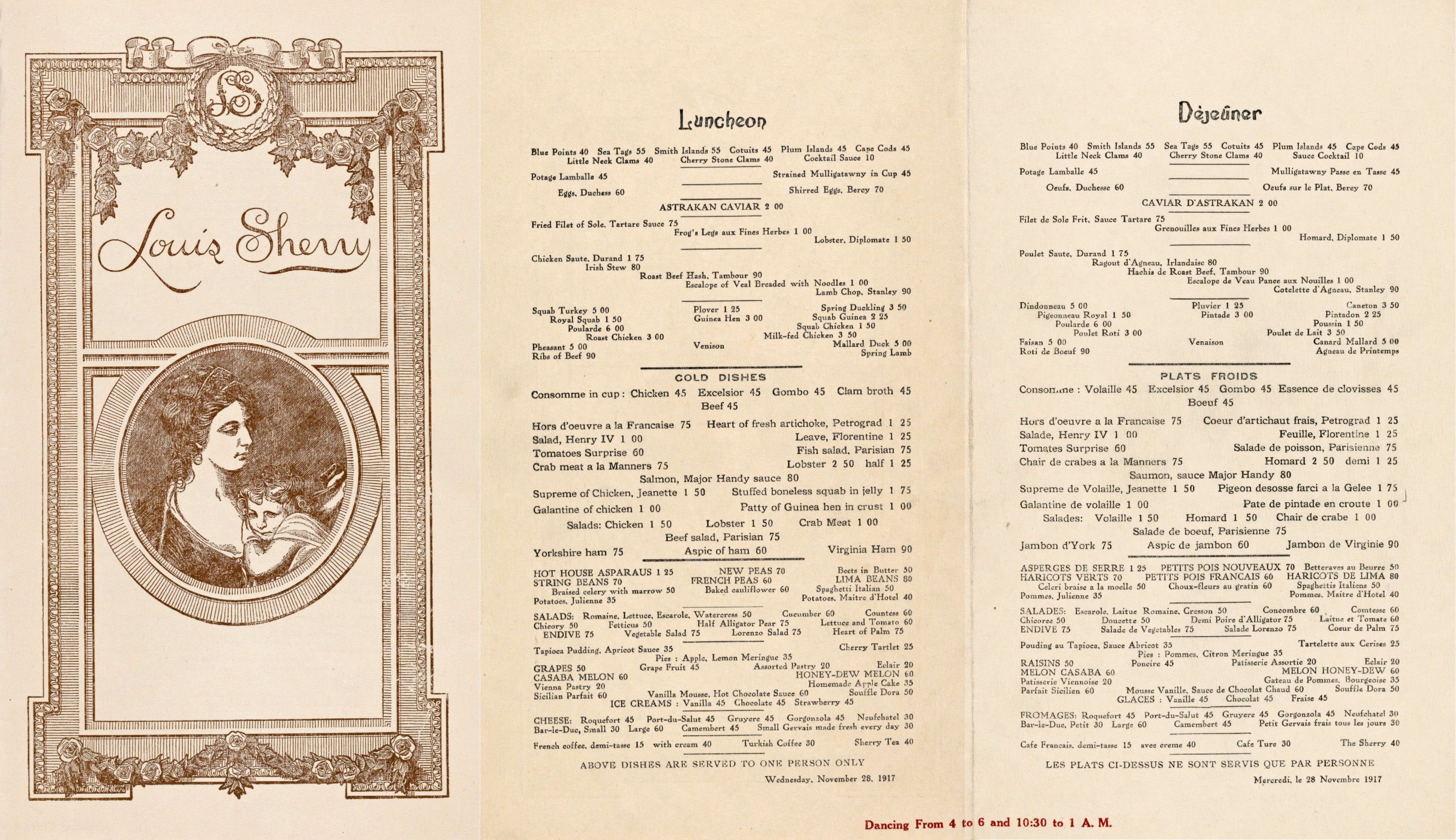 Menu from the Louis Sherry restaurant in New York City for November 28, 1917.